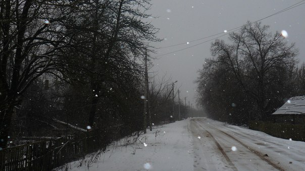 Branchycy village in winter time, 2011